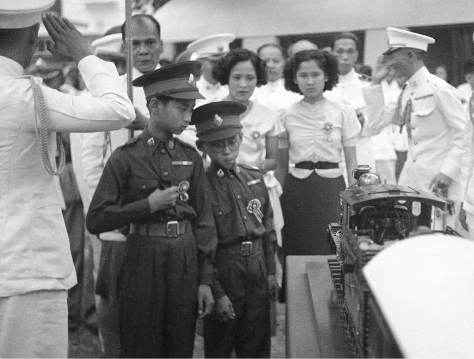 In this Dec. 16, 1938, file photo, thirteen-year-old King Ananda of Siam, now known as Thailand, left, and his brother Prince Bhumibol, right, inspect a model train presented to him at Saranromya Gardens in Bangkok. Thailand's Royal Palace said on Thursday, Oct. 13, 2016, that Thailand's King Bhumibol Adulyadej, the world's longest-reigning monarch, has died at age 88. (AP Photo, File)